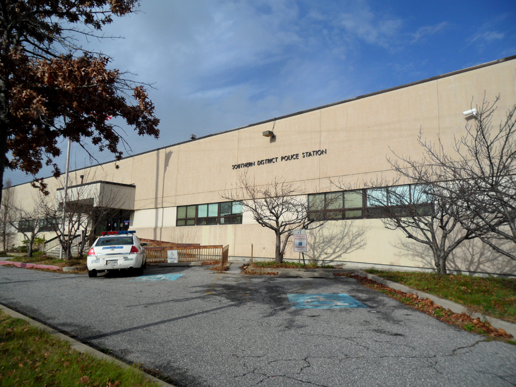 Baltimore Police Southern District